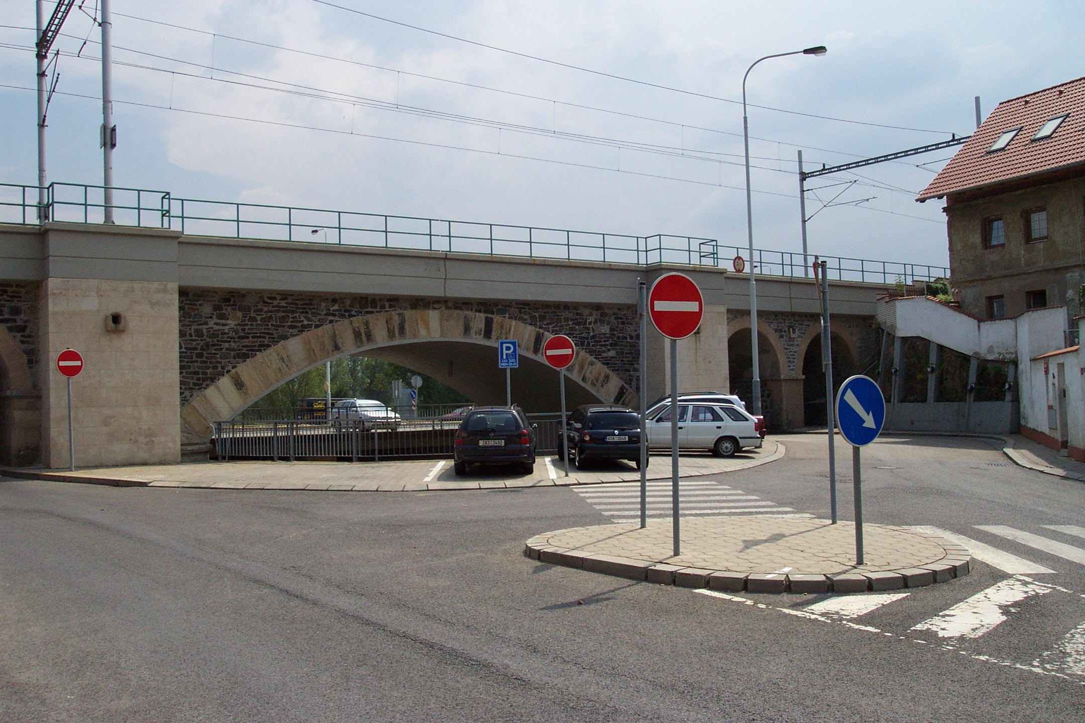 Bridge in Prague Dejvice and near Prague Lysolaje, CZ